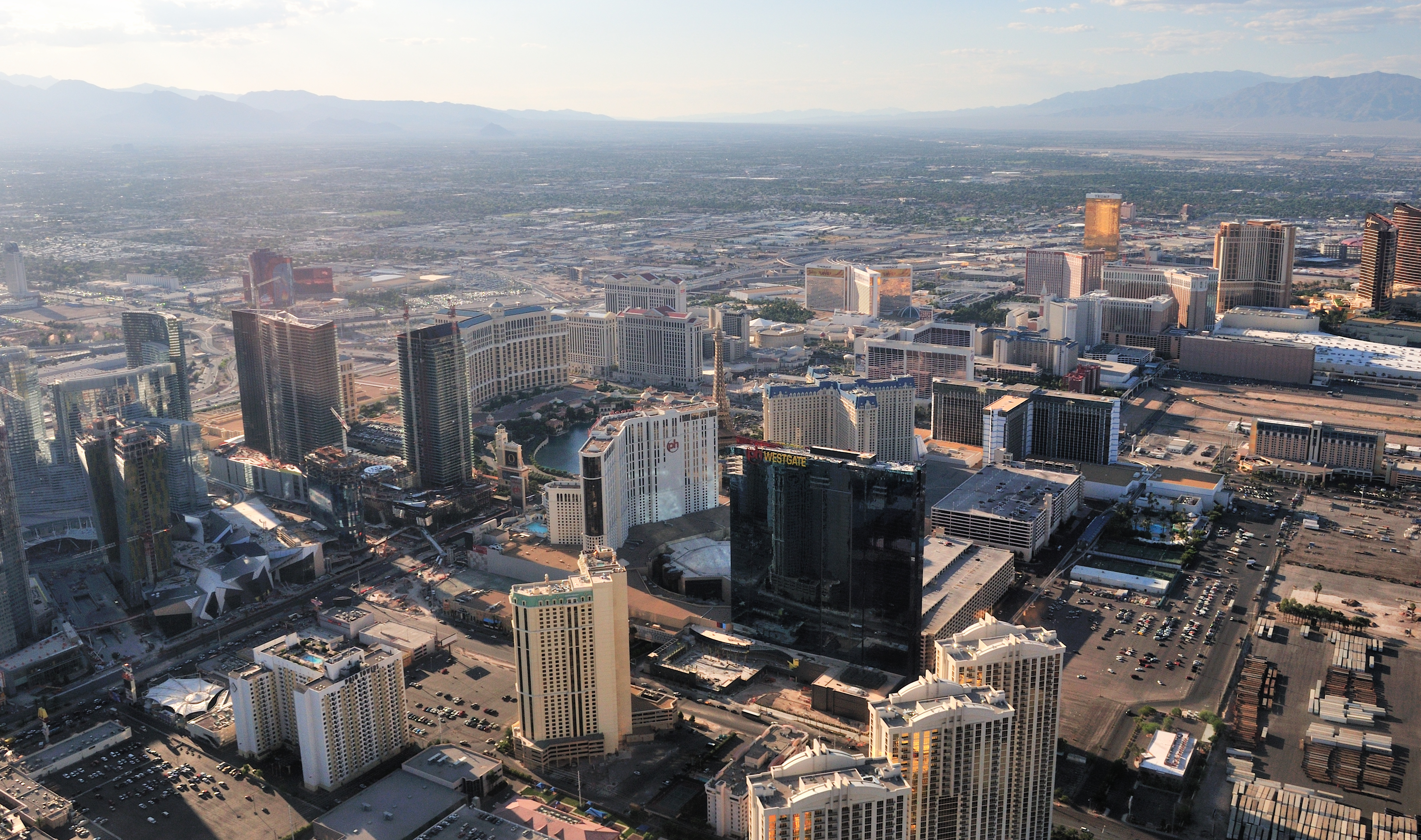 View of Las Vegas stip from a helicopter